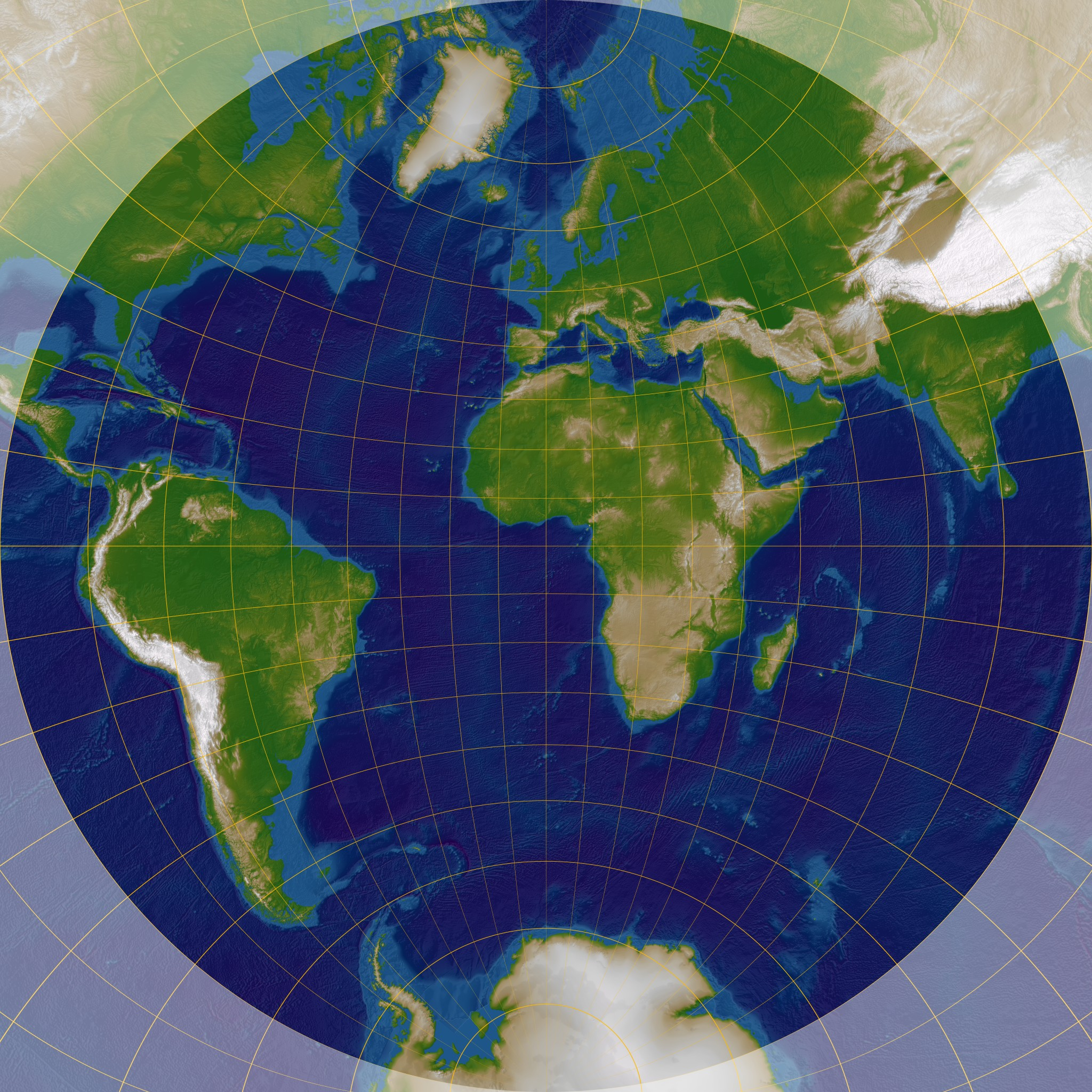 Transversal stereographic projection. Map center is at 0° E, 0° N. The highlighted circle marks the hemisphere from meridian 90° W to meridian 90° E. The white-shaded areas in the corners are on the other hemisphere.